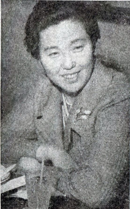 Chieko Akiyama